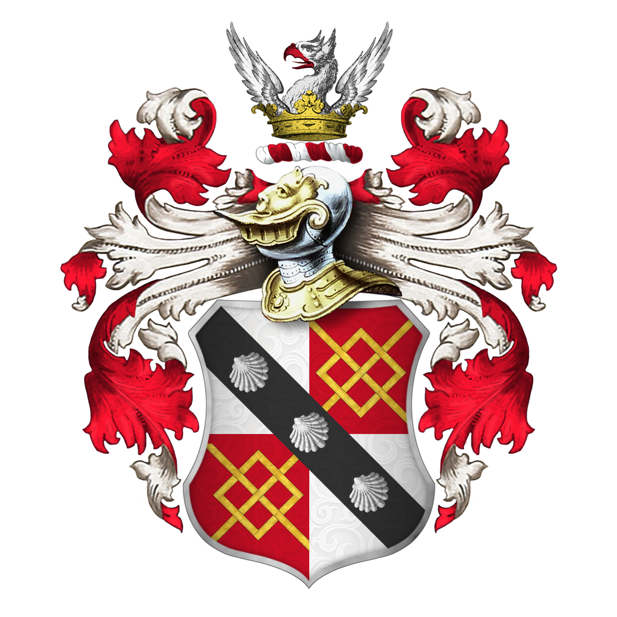 Coat of Arms - Spencer, of Warwickshire